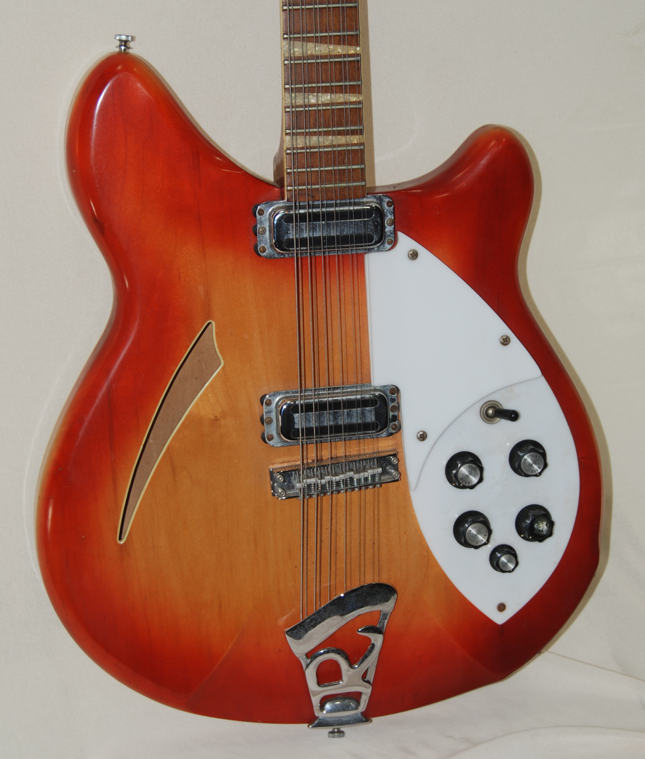 1967 Rickenbacker 360-12 12 string guitar identical to the one played by Carl Wilson in the mid to late 60s. Later models did not have the "toaster top" pickups responsible for the classic jangly sound of these guitars.